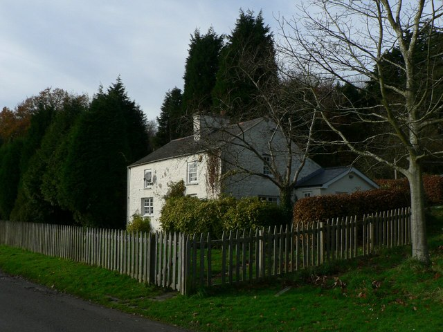 Nightingale Cottage in Porthkerry Country Park, Barry. This is the office of the park ranger. The fence has long since been removed and a plot housing park maintenance vehicles and equipment is located to the left and to the rear of the cottage. The site is heavily CCTV monitored (2020).